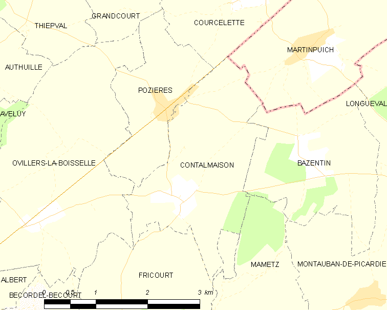 Map of French municipality Contalmaison